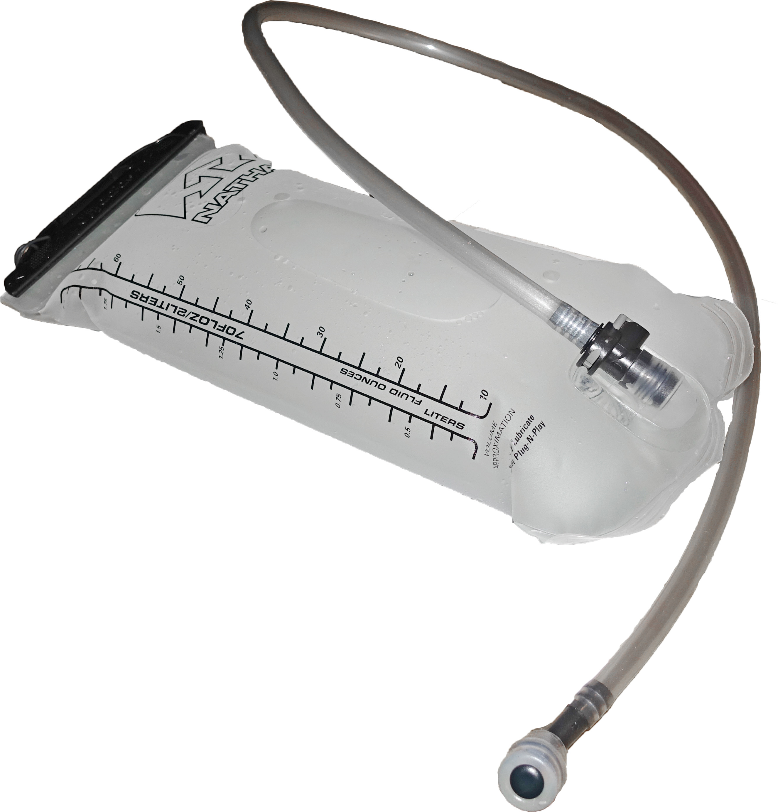 A hydration bladder filled with 2 litres of water.